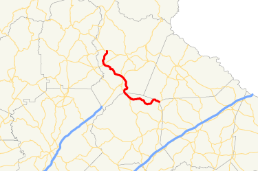 Map of Georgia State Route 105